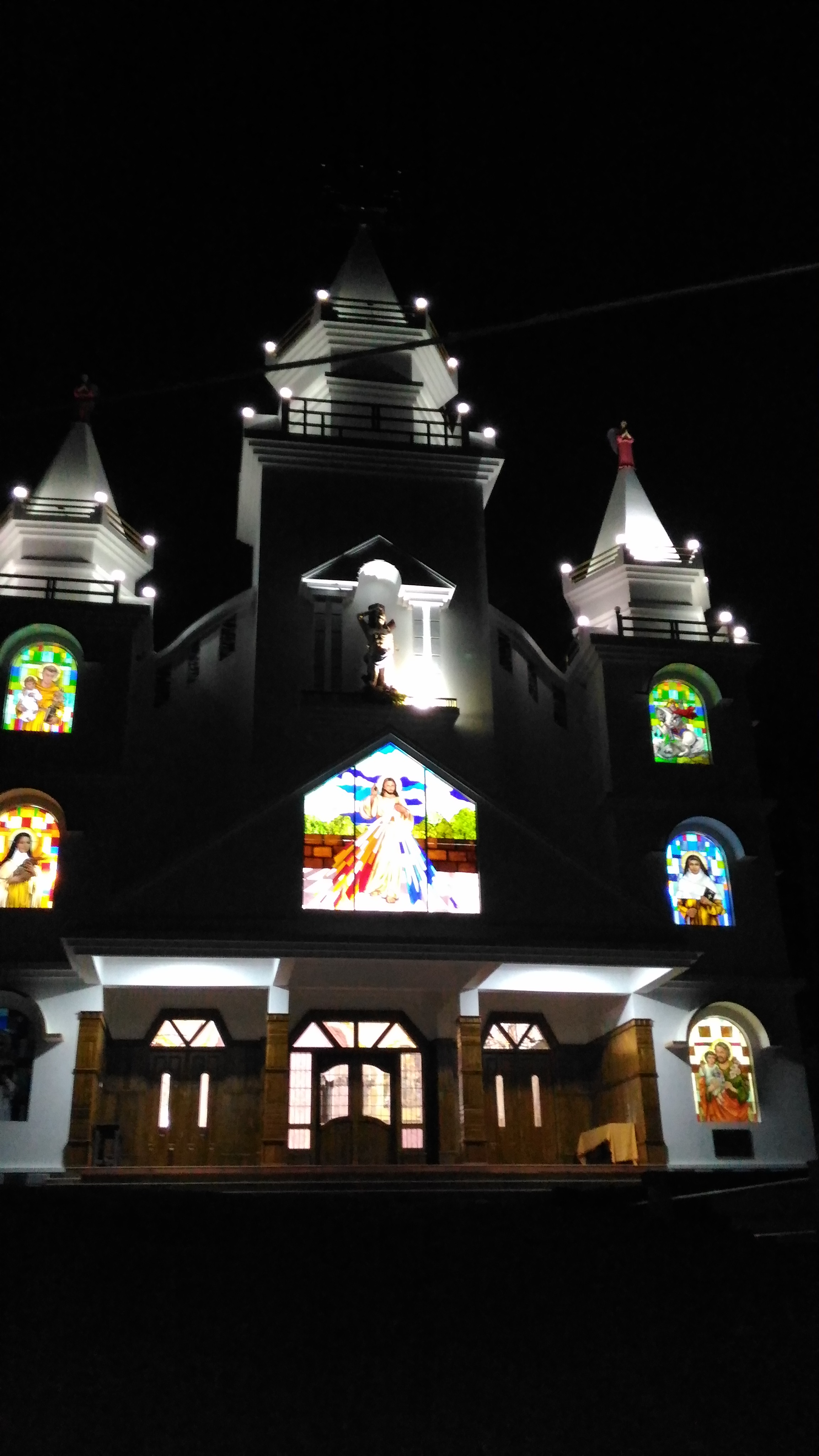 Padimaruth Church- A night vision